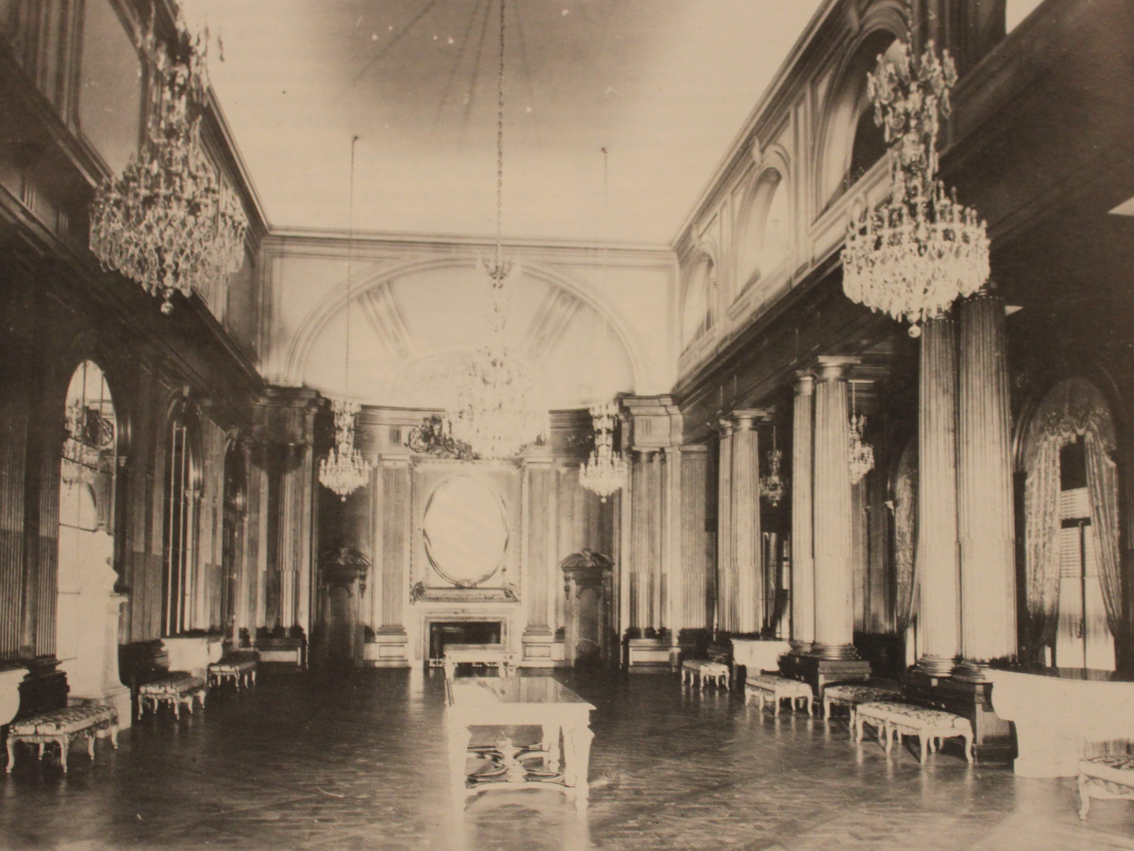 Palacio de la Legislatura de la Ciudad de Buenos Aires - Salón San Martín